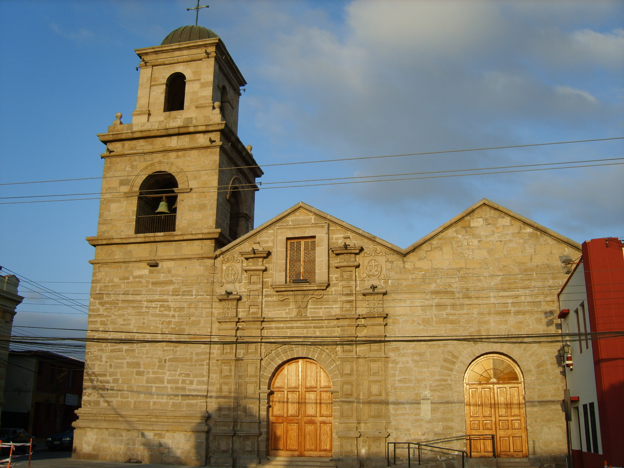 View of the San Francisco Church in La Serena, Chile.